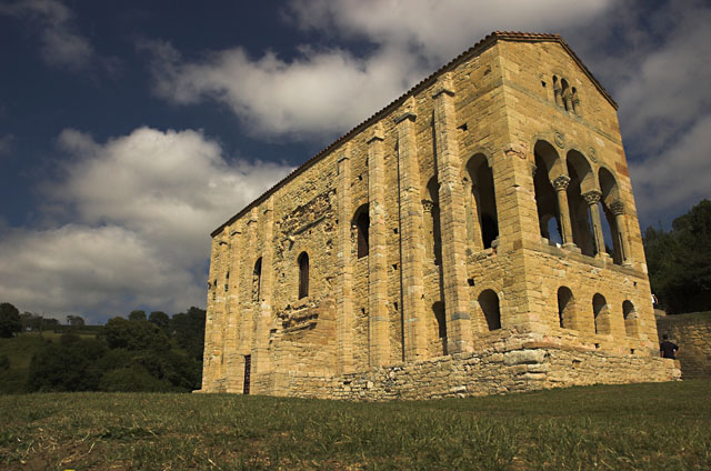 View of Santa_maria_del_naranco church(842-850). Pre-romanesque art.